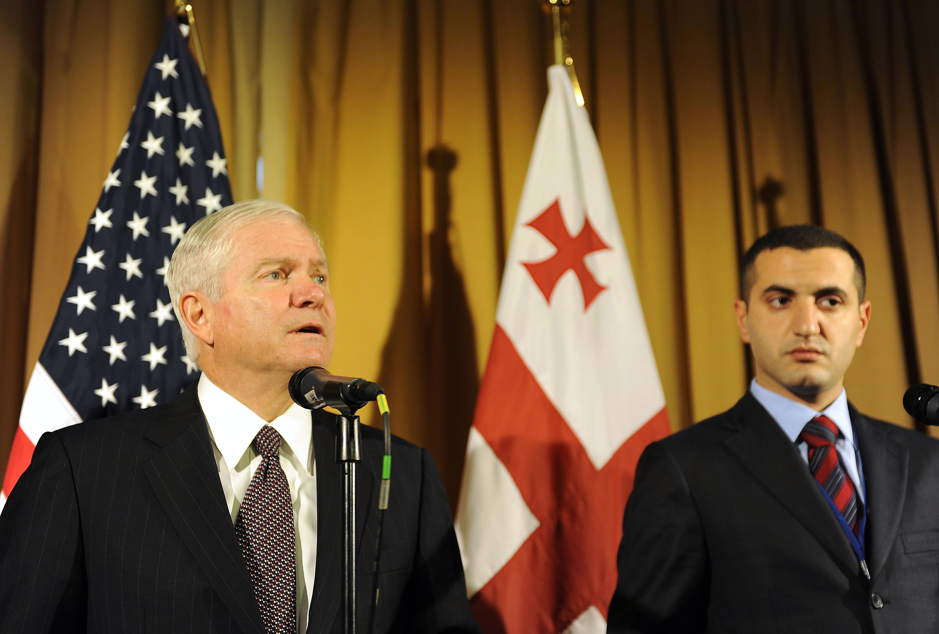 Secretary of Defense Robert M. Gates (left) and Georgian Minister of Defense Davit Kezerashvili conduct a press briefing after meeting during the Budapest NATO Conference in Budapest, Hungary, on October 9th, 2008.